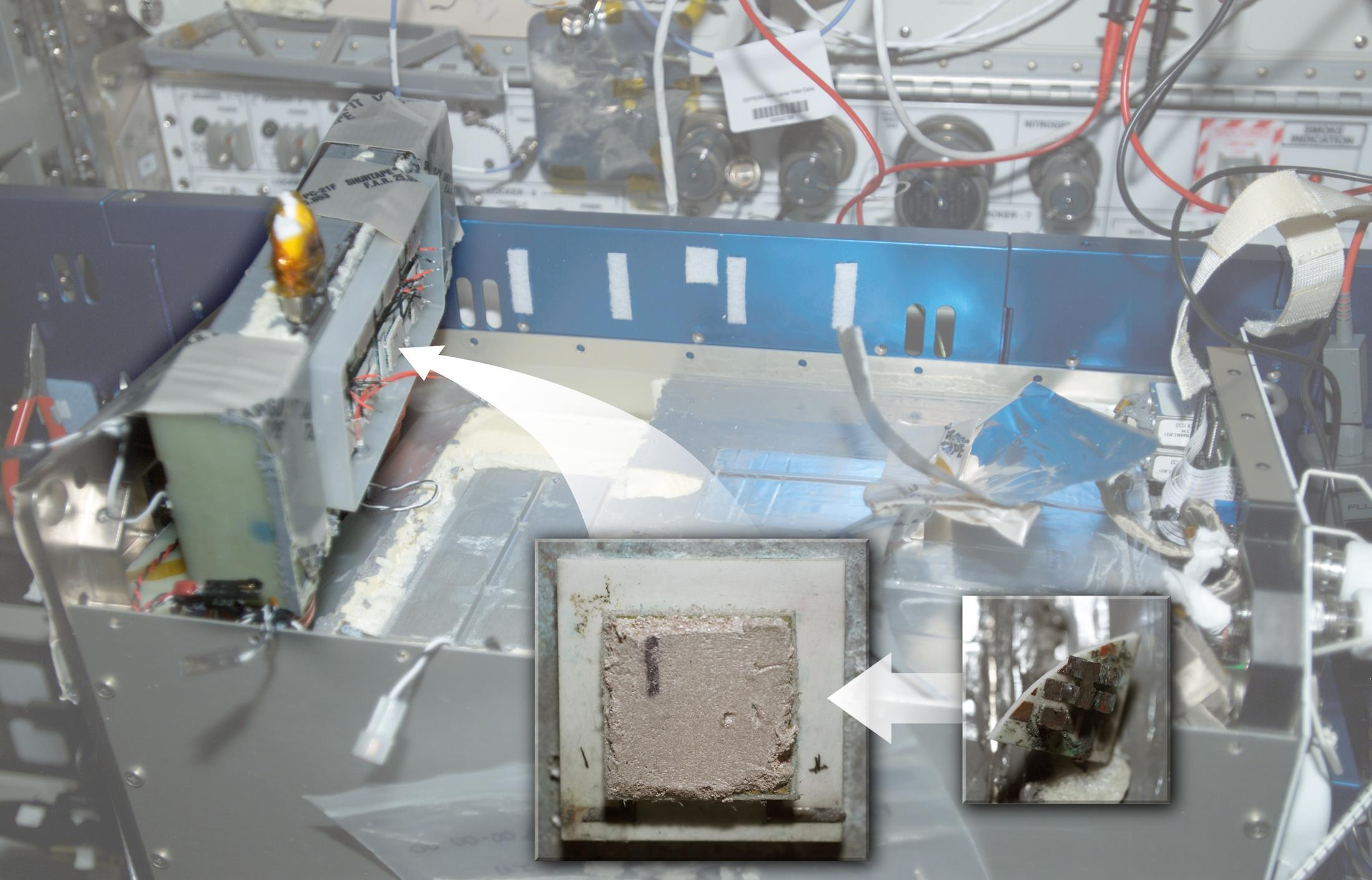 NASA Images: ISS006E46793, ISS006E46757, and ISS006E46308 show the disassembled ARCTIC-1 unit. The inset images show the corroded thermoelectric elements inside the ARCTIC.